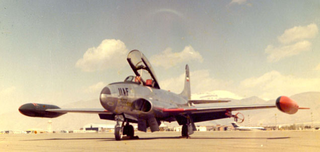 Lockheed T-33 Shooting Star belong to Imperial Iranian Air Force (IIAF).